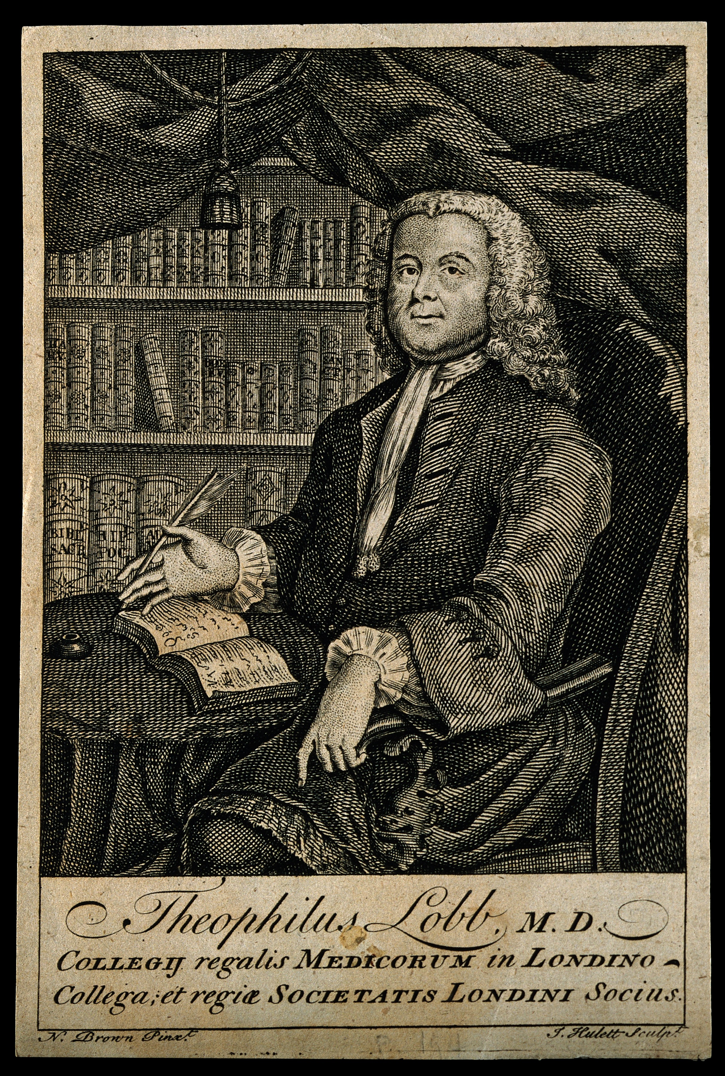 Theophilus Lobb. Line engraving by J. Hulett, 1767, after N. Brown. Iconographic Collections Keywords: portrait prints; N. Brown; engravings; James Hulett; Theophilus Lobb